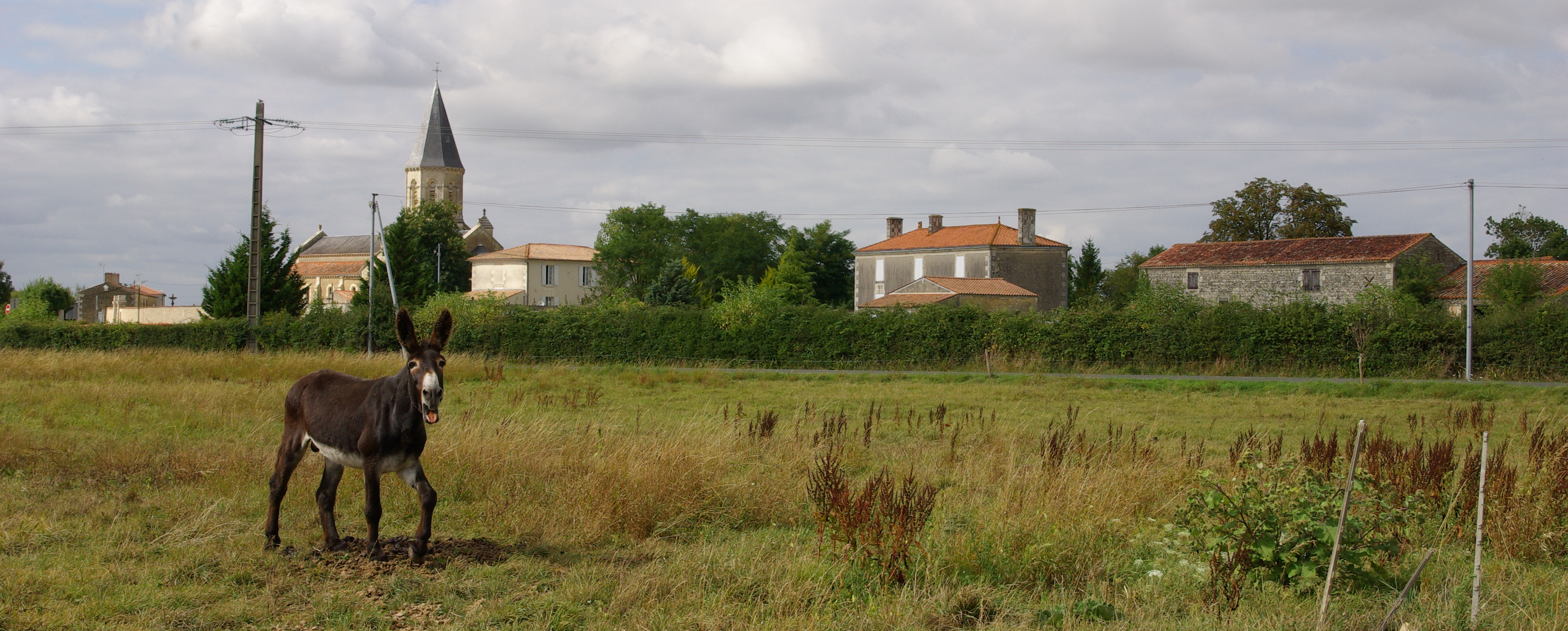 Saint-Pierre-le-Vieux village in Vendée.